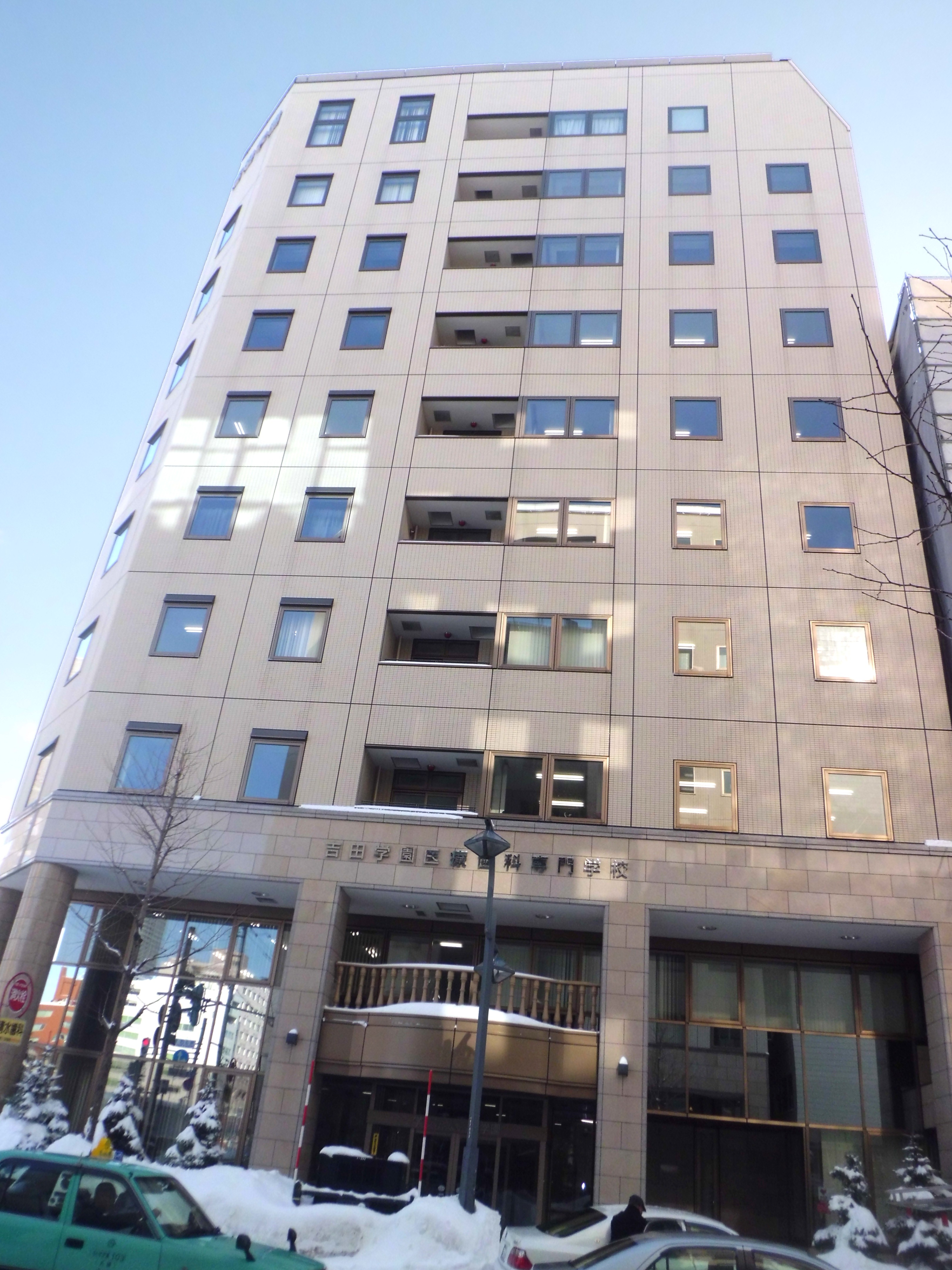 Yoshida Gakuen Medical and Dental Collage